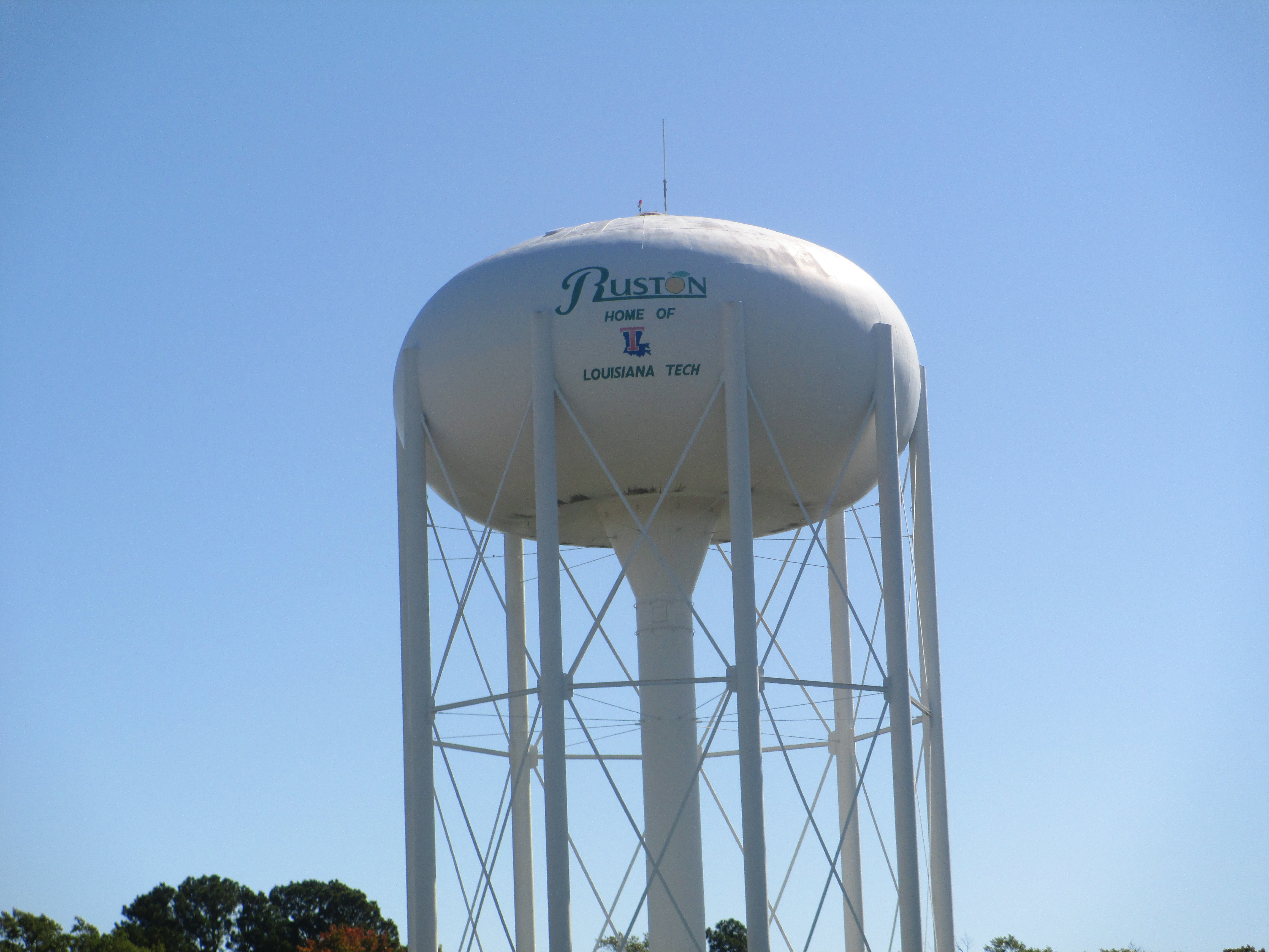 Revised, Ruston, LA water tower